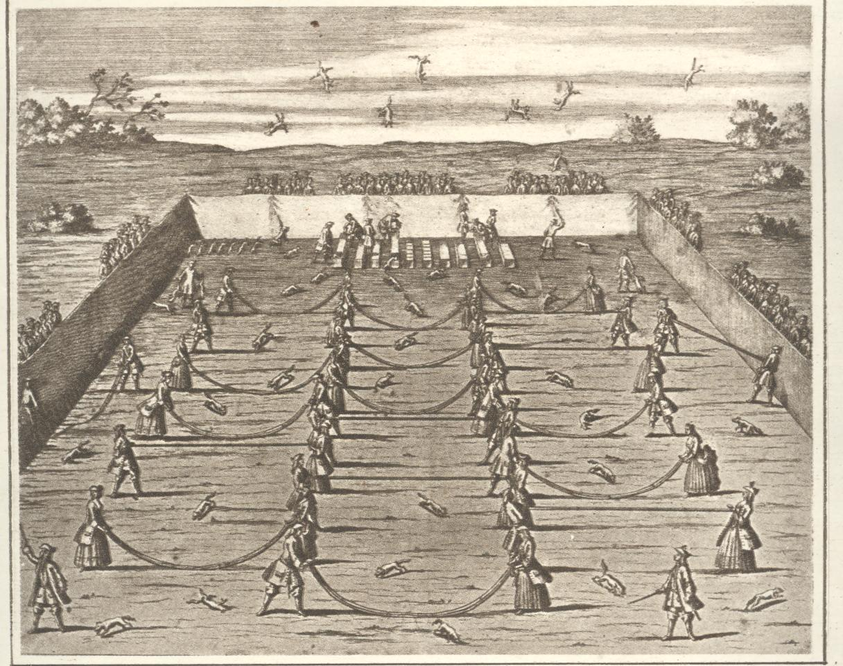 A depiction of a fox tossing tournament of the early 18th century.